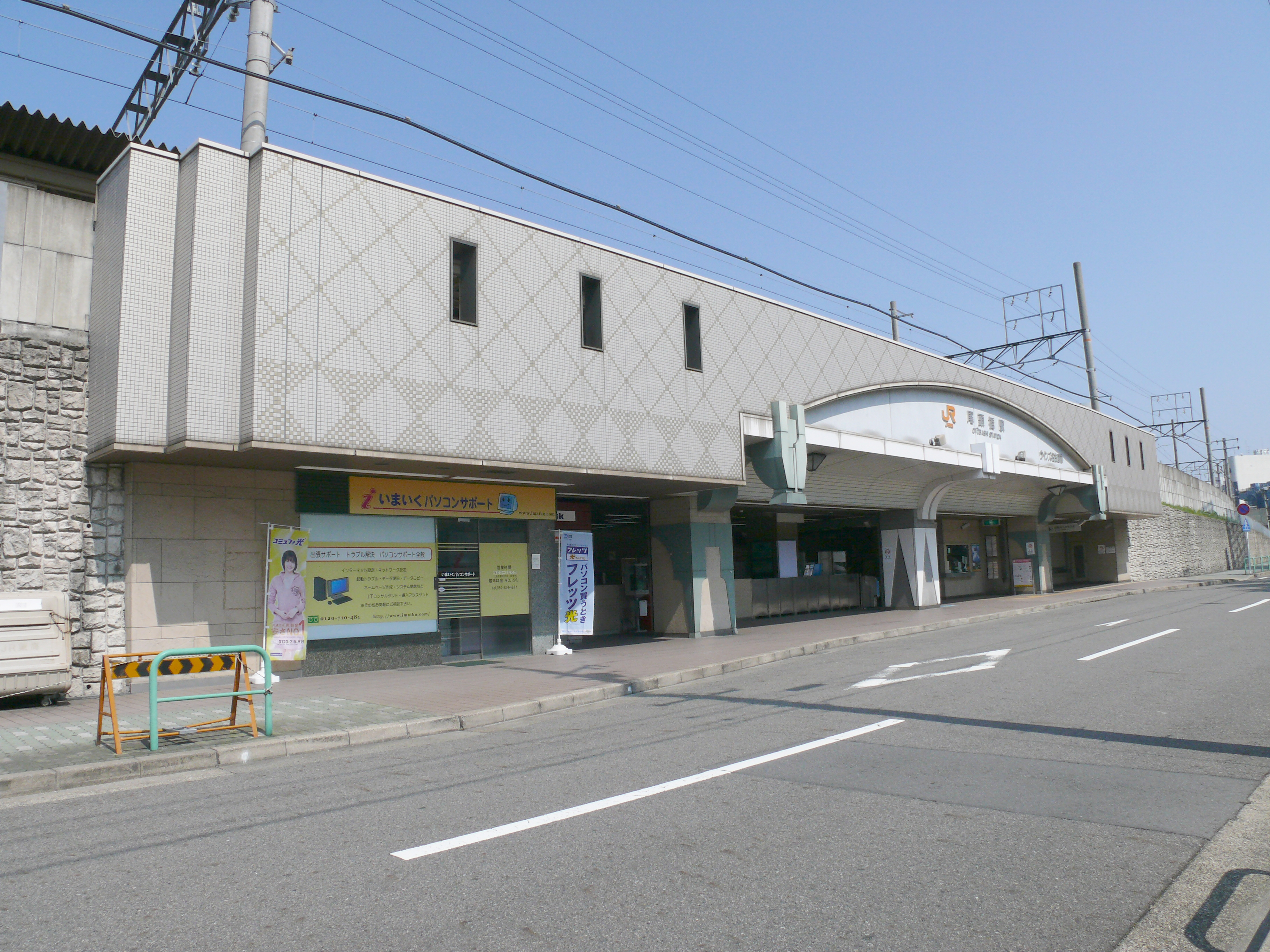 JR Central of Otobashi Station.